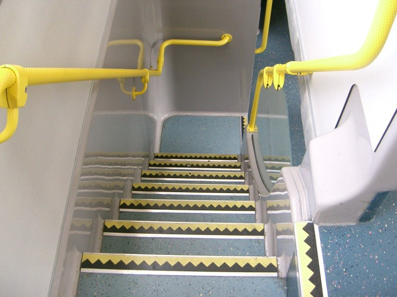 The "straight" staircase of a KMB ATE.